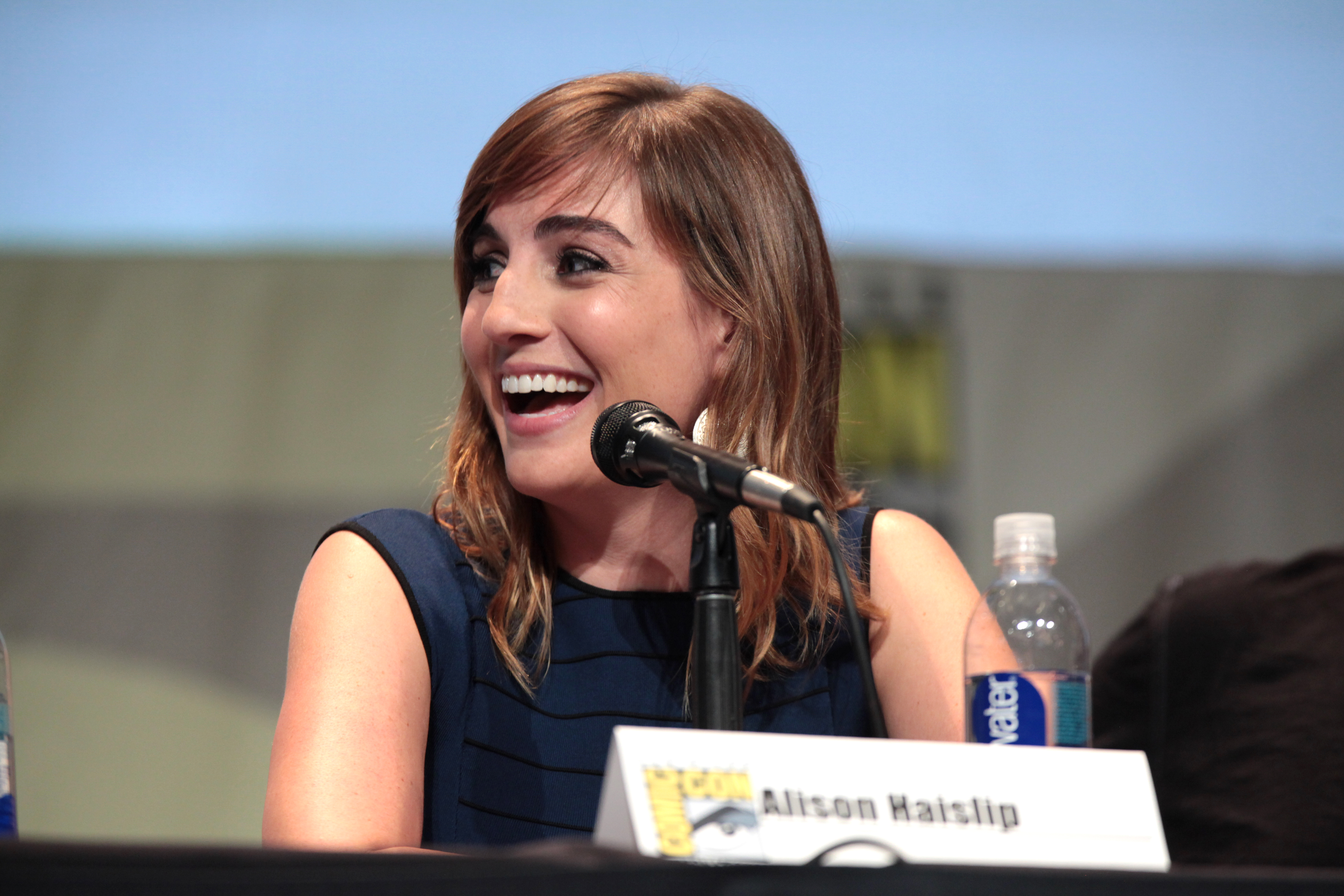 Alison Haislip speaking at the 2015 San Diego Comic Con International, for "Con Man", at the San Diego Convention Center in San Diego, California.